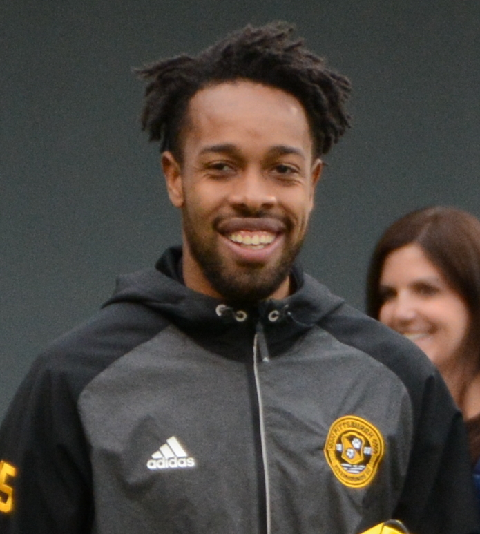 Taken during a USL regular season match between FC Cincinnati and Pittsburgh Riverhounds at Nippert Stadium in Cincinnati, USA on April 21, 2018.